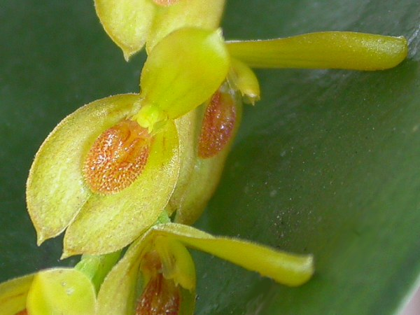 Acianthera macropoda